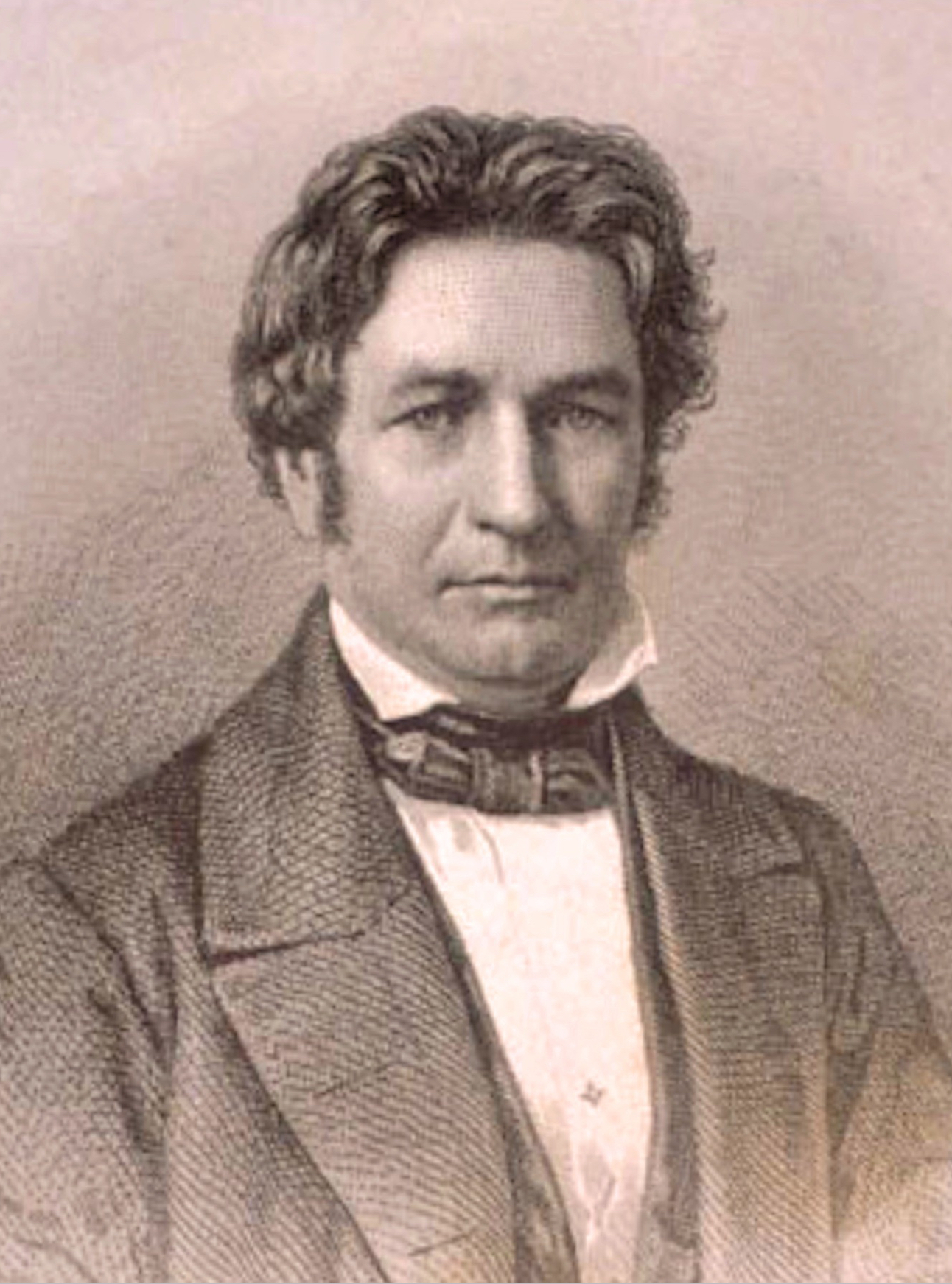 Andre Roman Tulane University